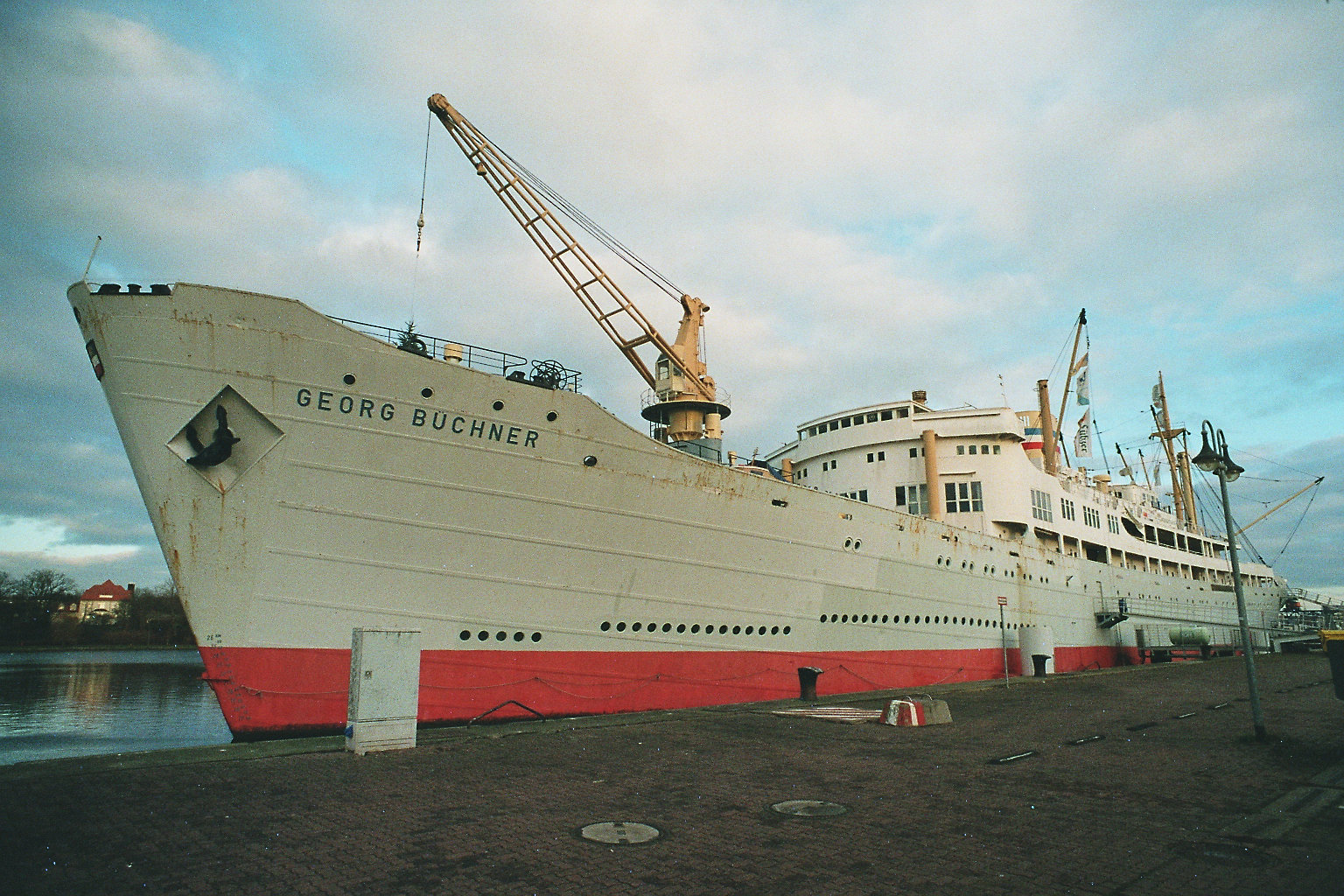 The MS Georg Büchner was a ship for the transport of up to 248 passengers and freight in service for the east german shipping company Deutsche Seerederei. Nowadays, it serves as hotelship belayed at Rostock-Kabutzenhof in the city port.